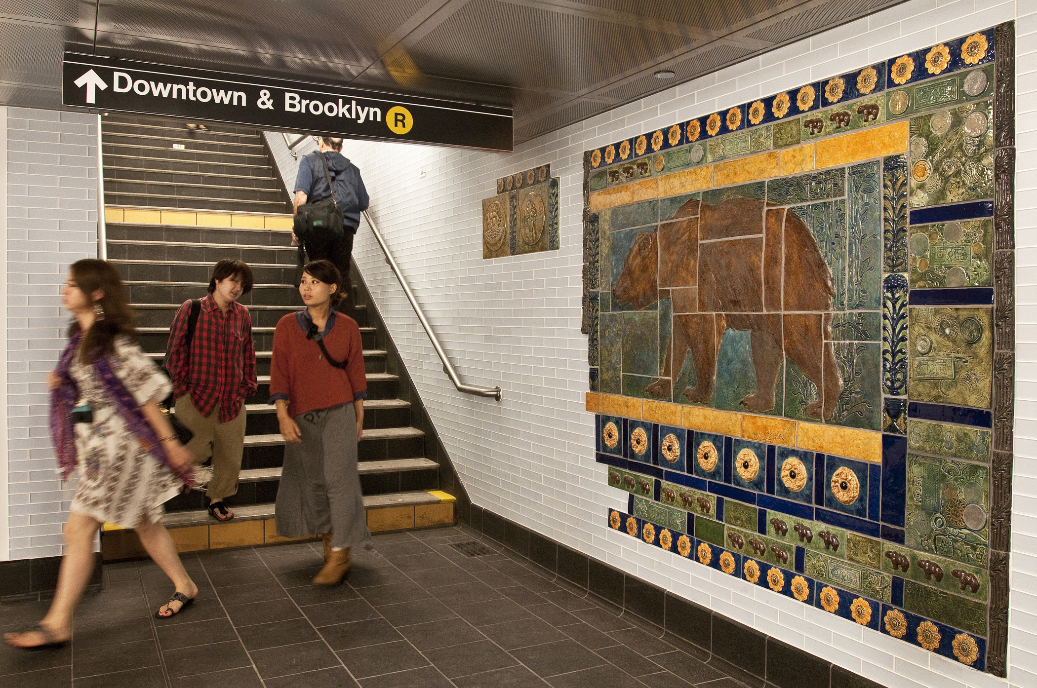 The southbound platform of the R subway station at Cortlandt St. permanently reopened on Sept. 6, 2011. The station was closed on Sept. 11, 2001, after being badly damaged by the terrorist attacks. The artwork at the station, "Trade, Treasure and Travel" made of handmade ceramic relief tiles by Margie Hughto in 1997, survived the attack and has been restored. Photo by Metropolitan Transportation Authority / Patrick Cashin.